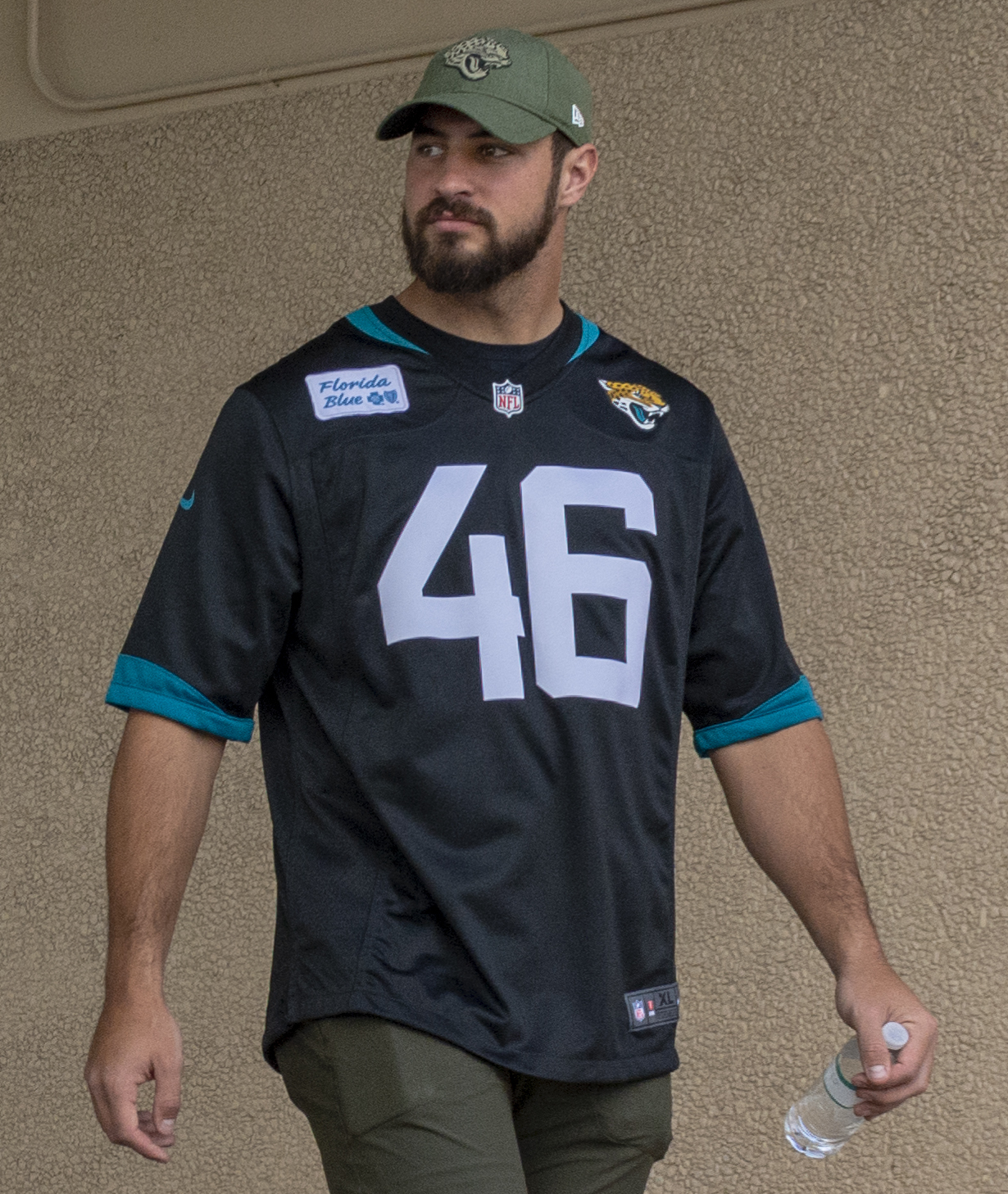 JACKSONVILLE, Fla. (Nov. 12, 2019) -- Players from the Jacksonville Jaguars football team visited the 125th Fighter Wing. This visit allowed an opportunity for player to see missions of the 125th Fighter Wing. (U.S. Air Force photo by Airman 1st Class Jacob Hancock, Released.) (This image was cropped to emphasize the subject.)